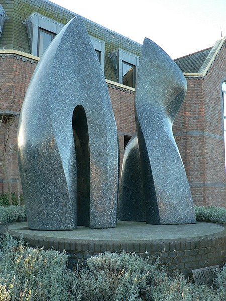 The Chauvinist, Hills Road / Brooklands Road